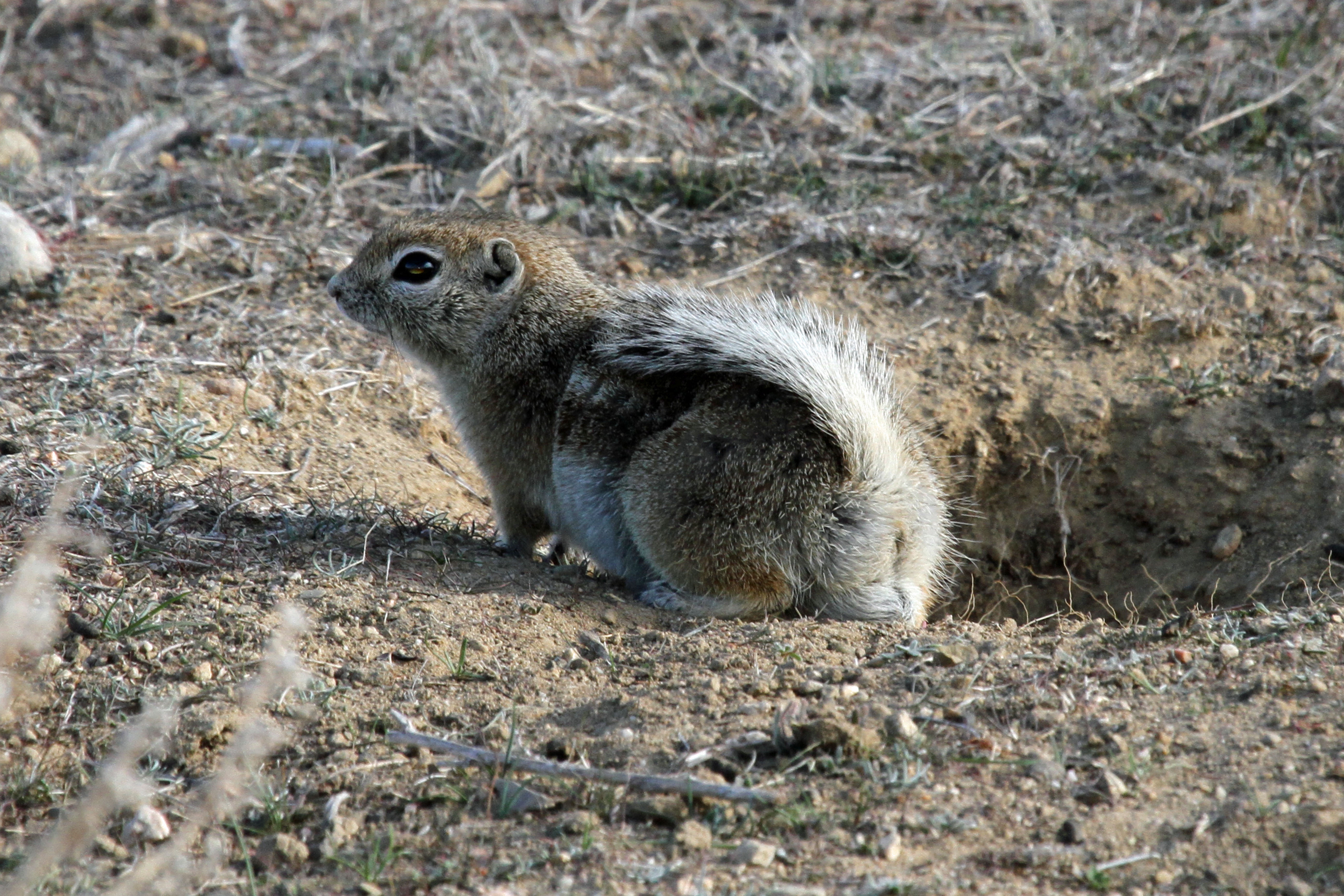 Ammospermophilus nelsoni (San Joaquin antelope squirrel) in San Luis Obispo County, California, US